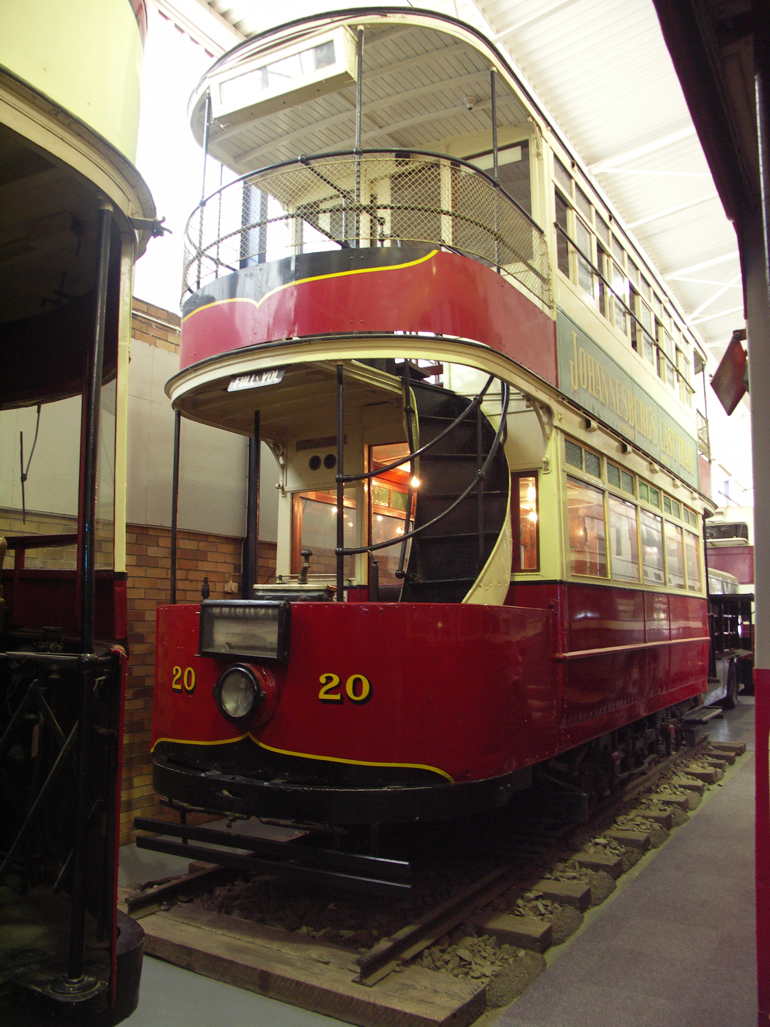 One of the last trams that were in use in Johannesburg, South Africa. Now housed in the James Hall museum of Transport at Wemmerpan, Johannesburg.